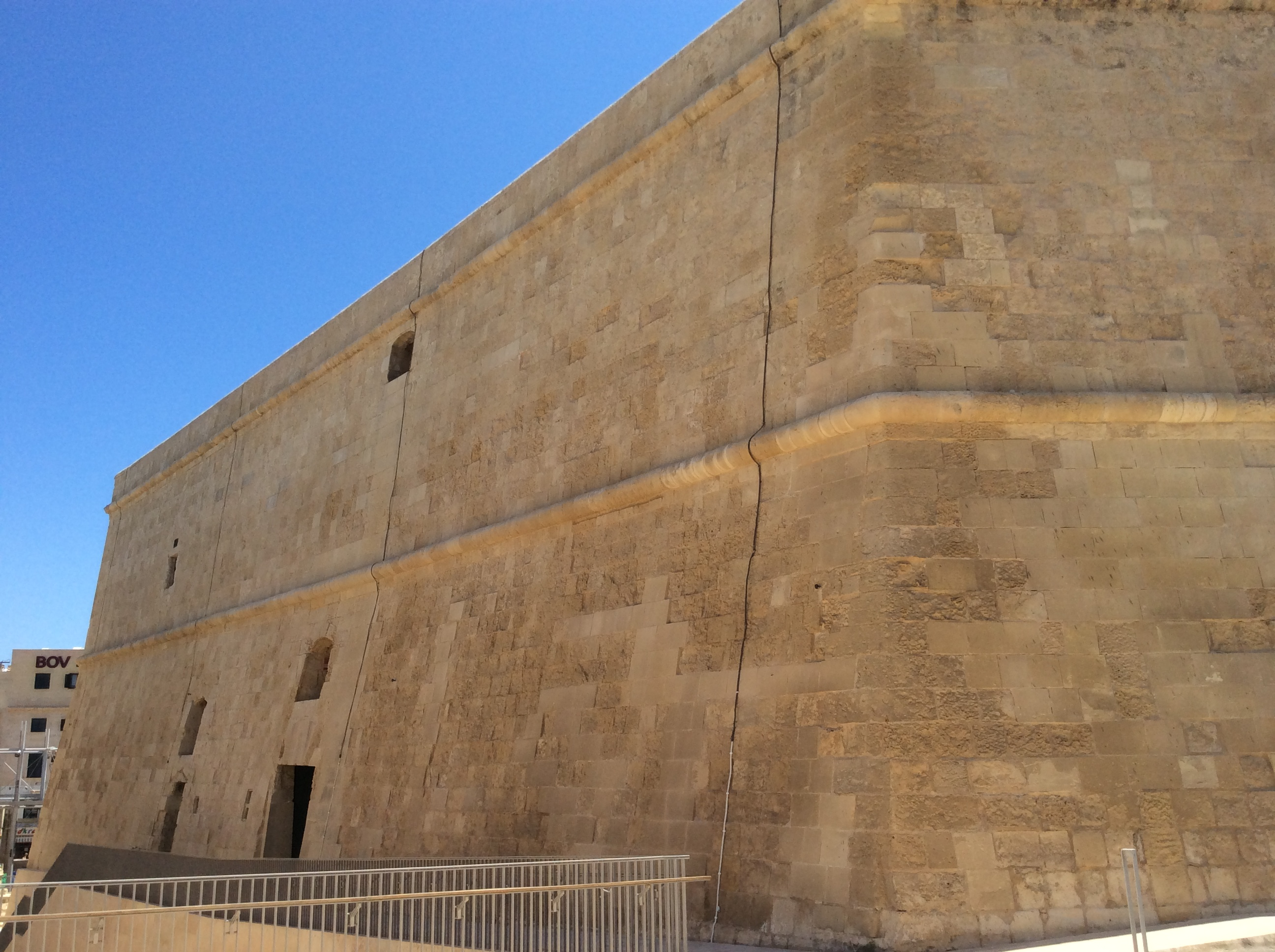 Saint James Kavallier